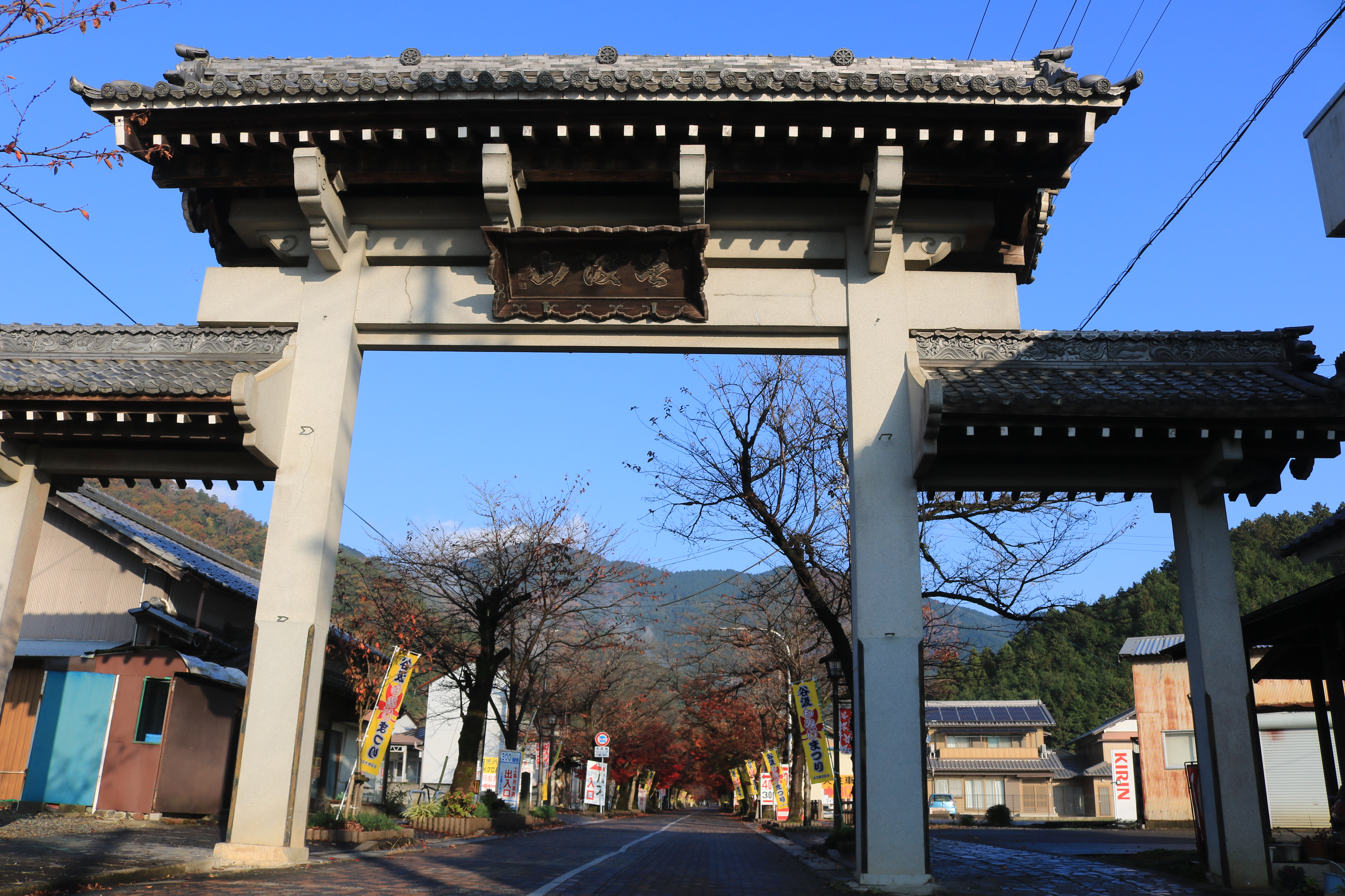 Somon of Kegon-ji on Mount Myoho, in Ibigawa, Gifu prefecture, Japan.